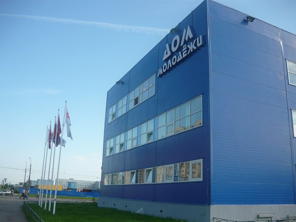 cultural center for yungsters in southern Petersburg